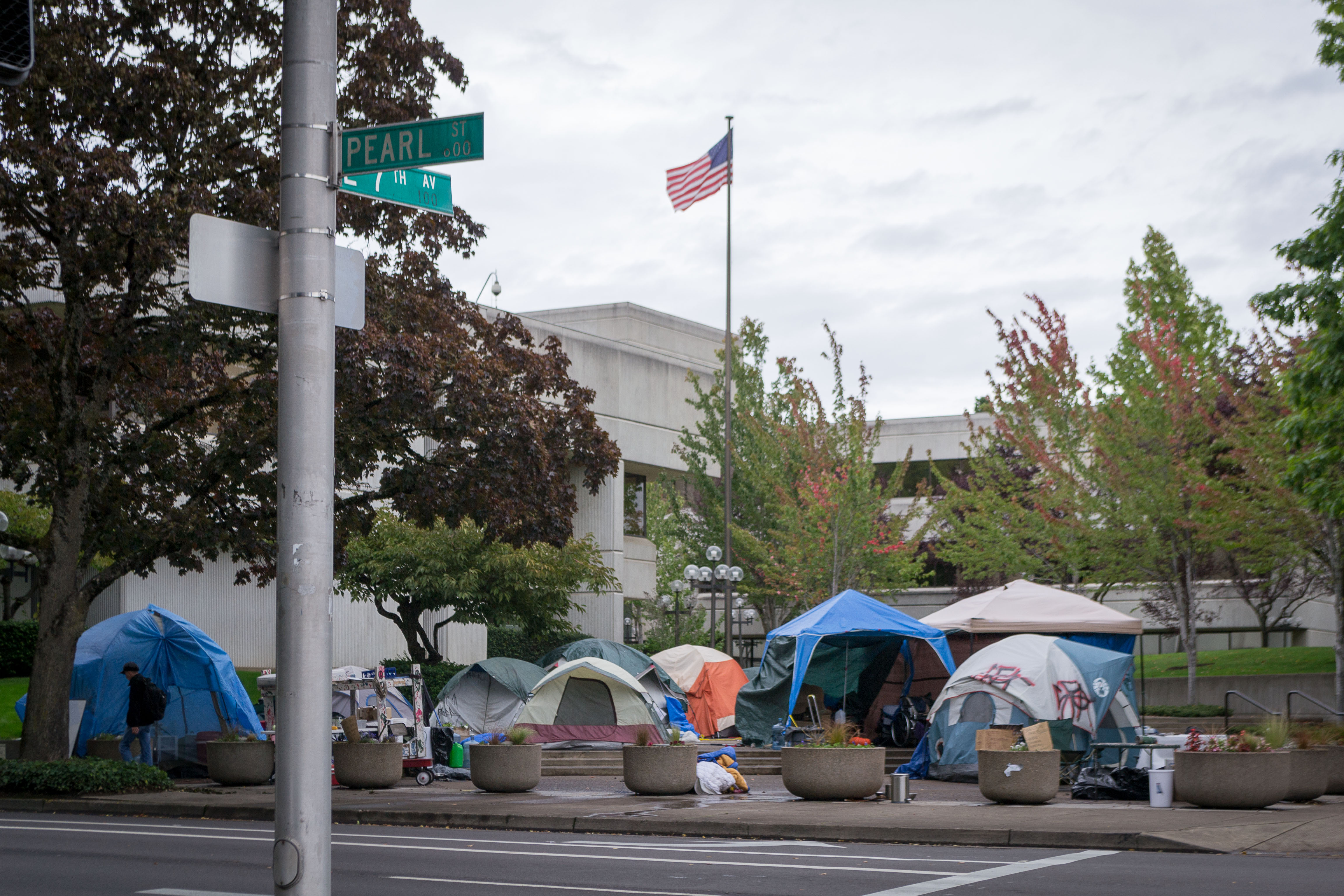 A small tent city in the plaza of a federal office building in Eugene, Oregon